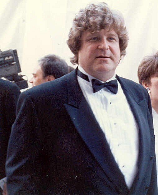 John Goodman on the red carpet at the 62nd Annual Academy Awards